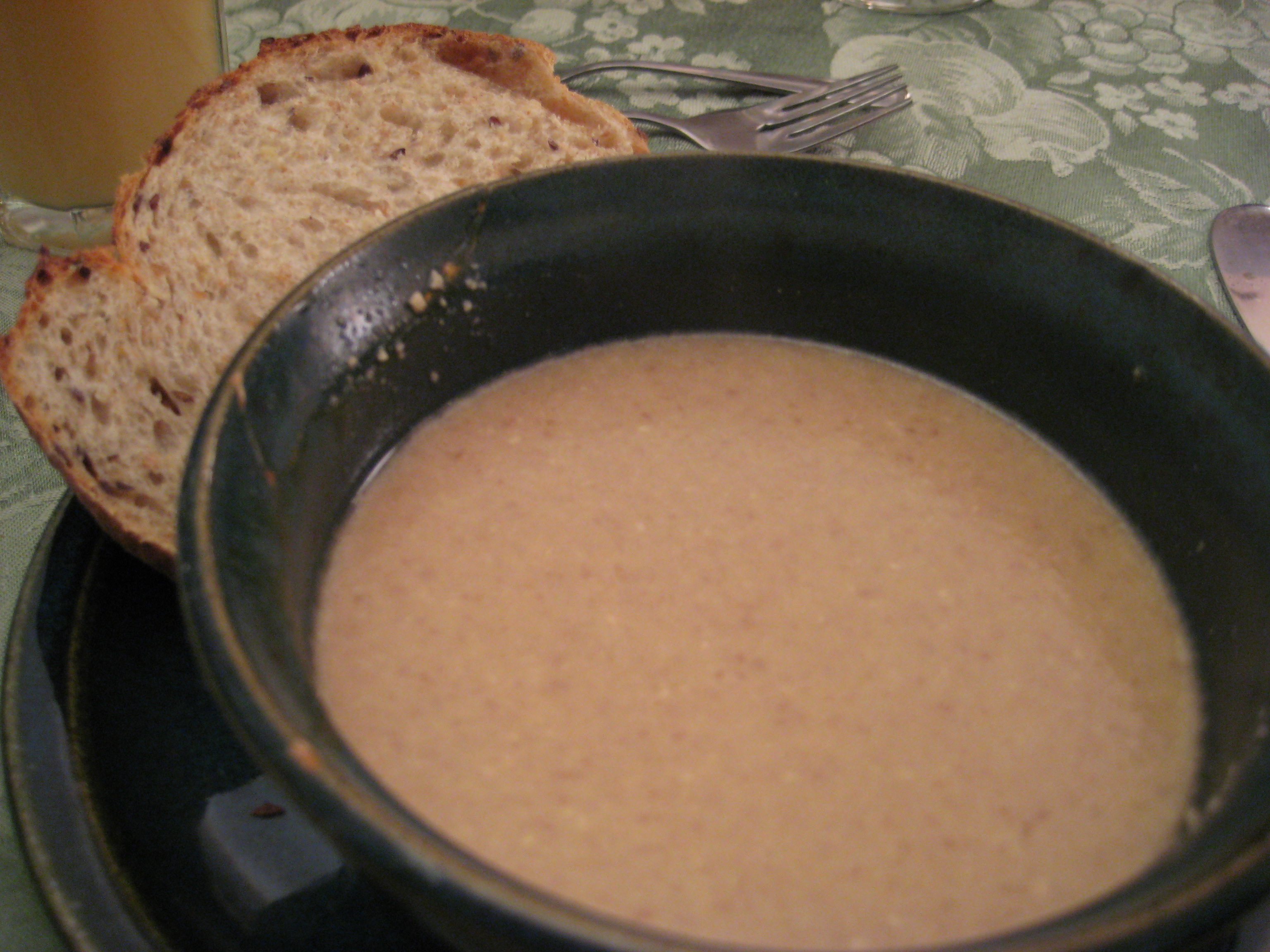 Walnut soup, crusty seven grain bread, pineapple coconut juice.